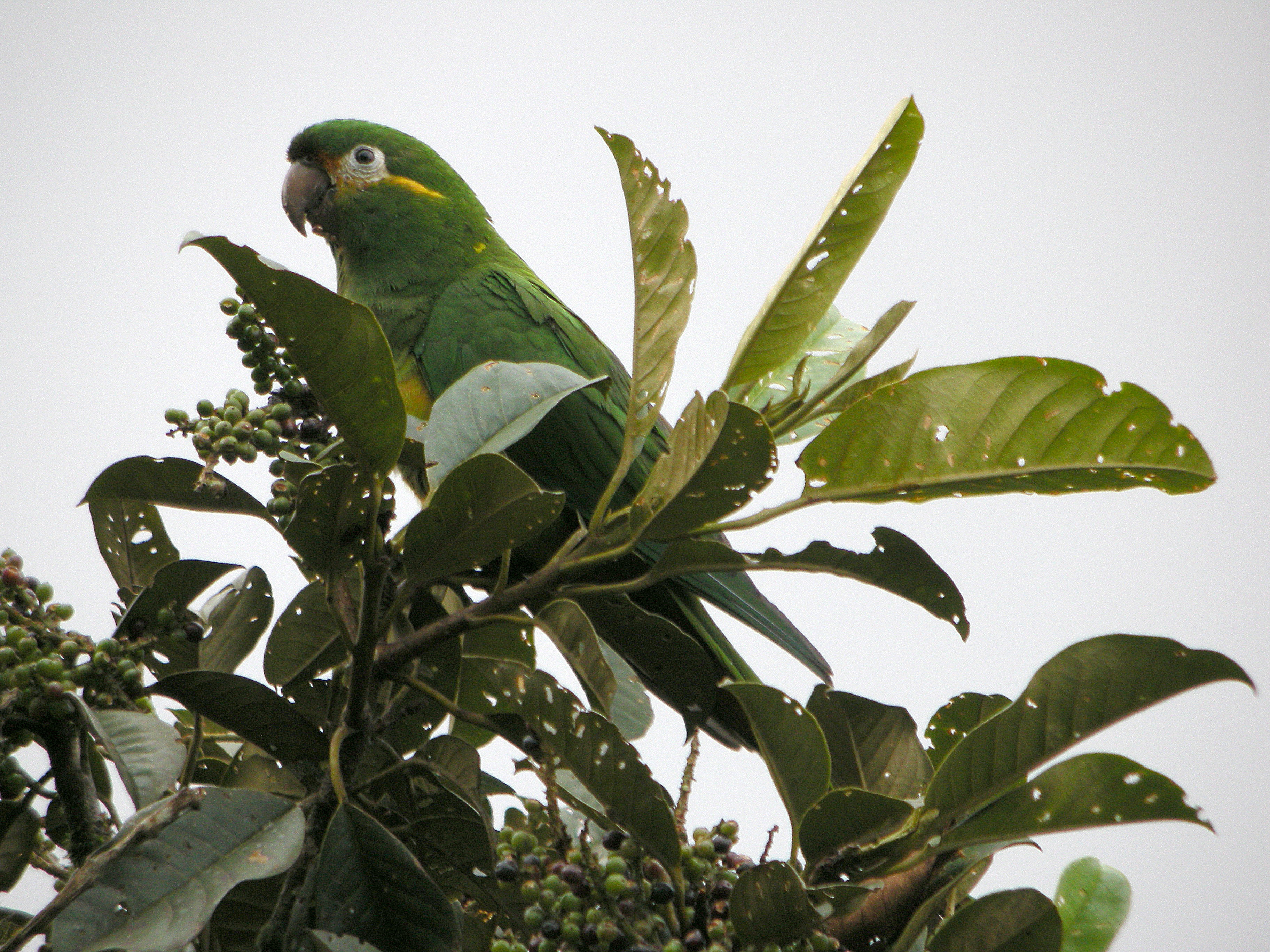 Golden-plumed Parakeet in Tapichalaca Reserve, Ecuador.